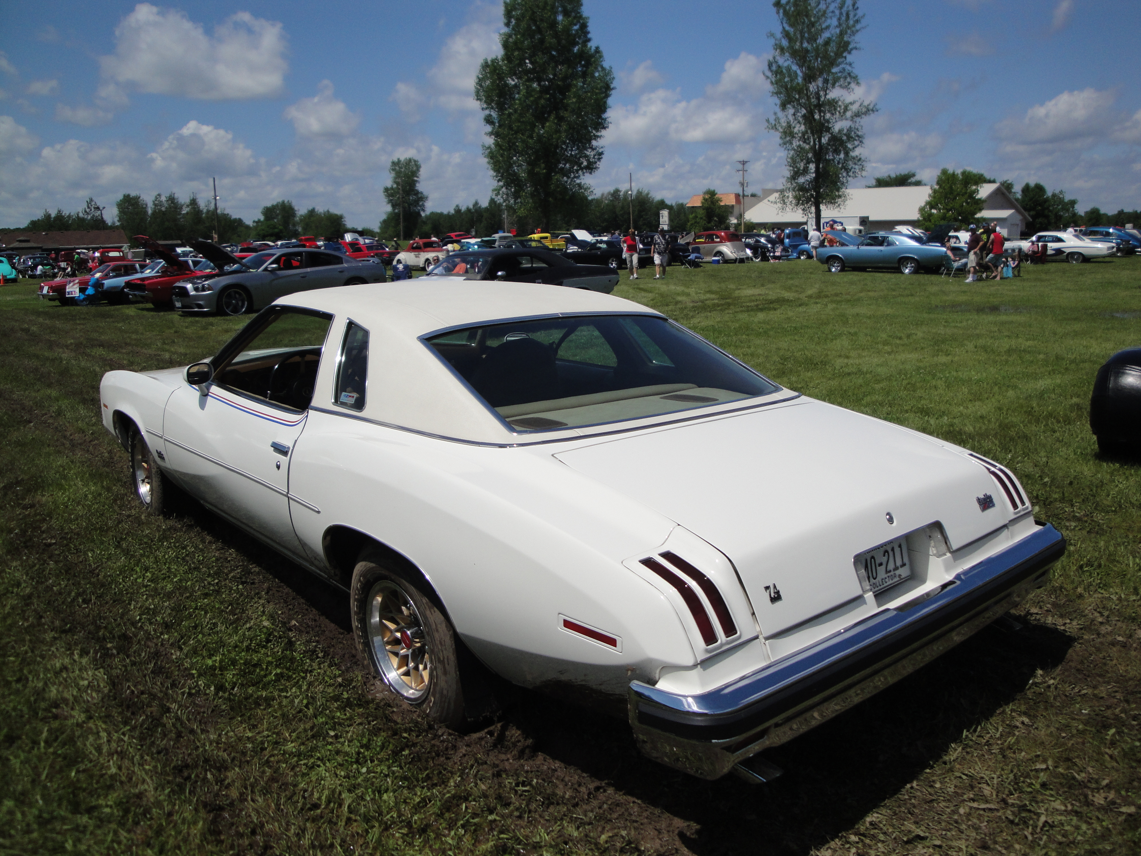 2012 Memorial Day Car Show Hosted by the North Star Chapter of the Studebaker Drivers Club